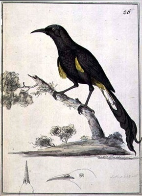 Hawaiʻi ʻŌʻō (Moho nobilis) (Plate 26) Painted by William Ellis while accompanying Captain James Cook on his third voyage (1776-78).